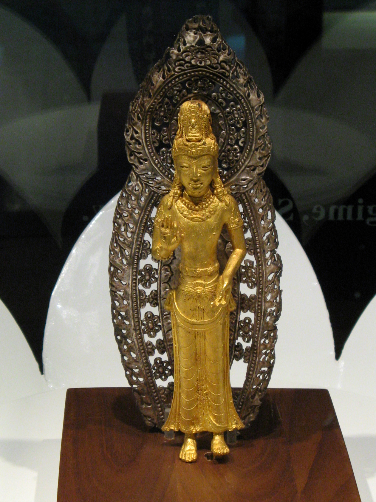 Acuoye Guanyin. Nanzhao Kingdom, 9th century AD. Yunnan Provincial Museum, Kunming This gilt statue is "Acuoye Guanyin" ("All Victorious Guanyin," Skt. Ajaya Avalokiteshvara). According to legend, this form of Guanyin first manifested in China as a spiritual teacher (Brahmin) from India. The statue was recovered from the 9th century Qianxun Pagoda in Dali. Reference: Howard et. al., Chinese Sculpture, p. 346-347.